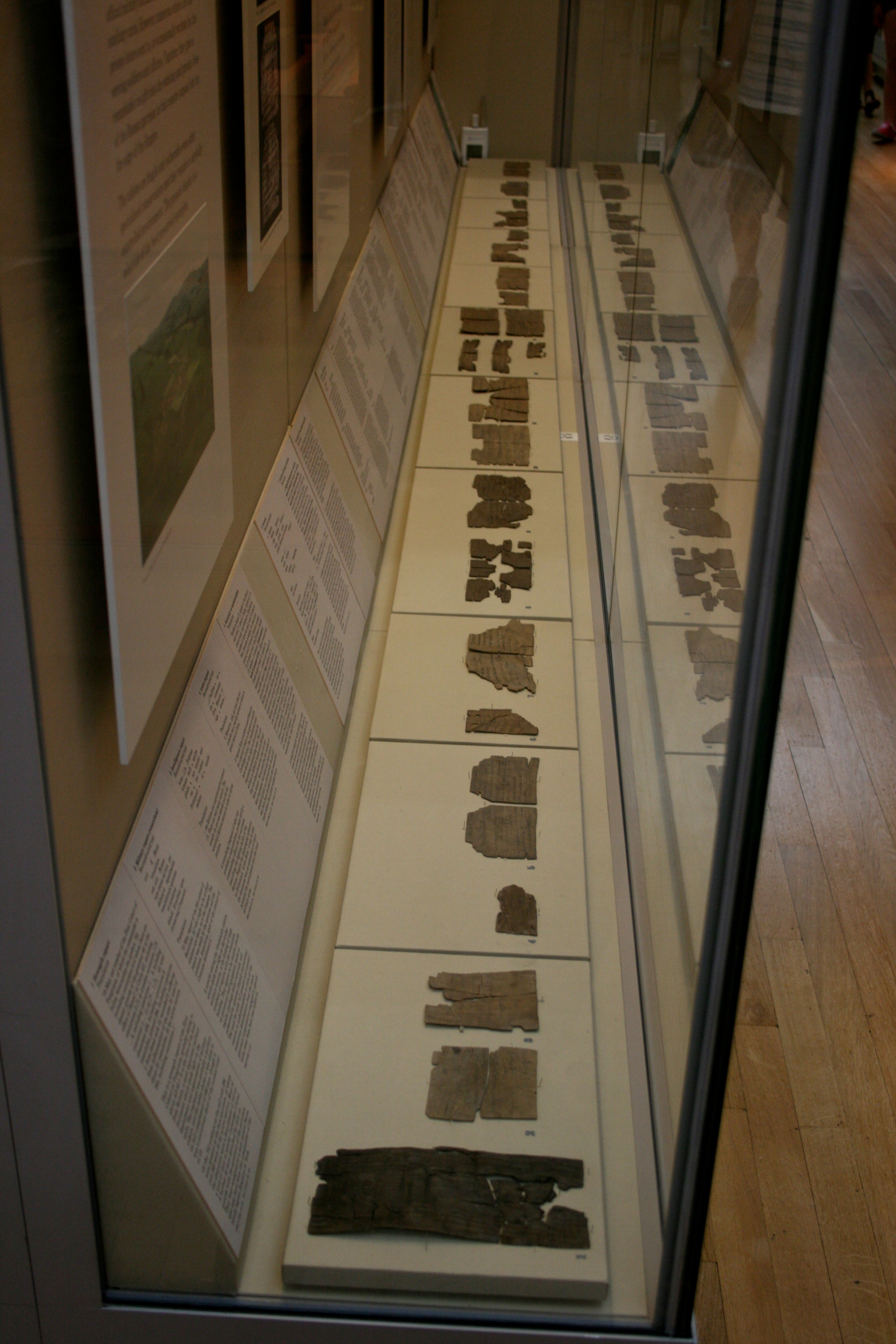 Vindolanda tablets in the British Museum.